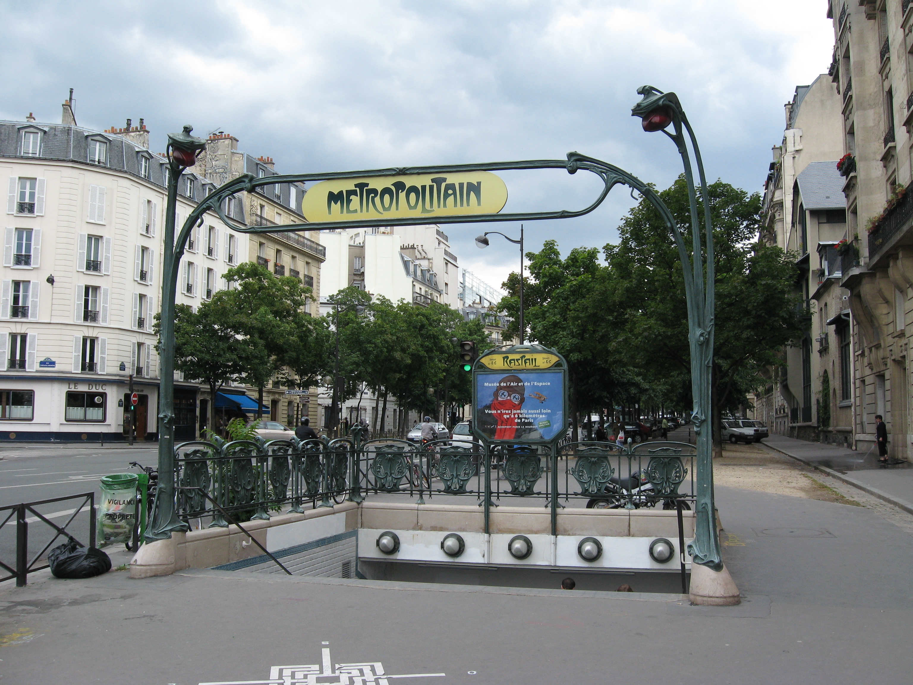 Raspail, Metro